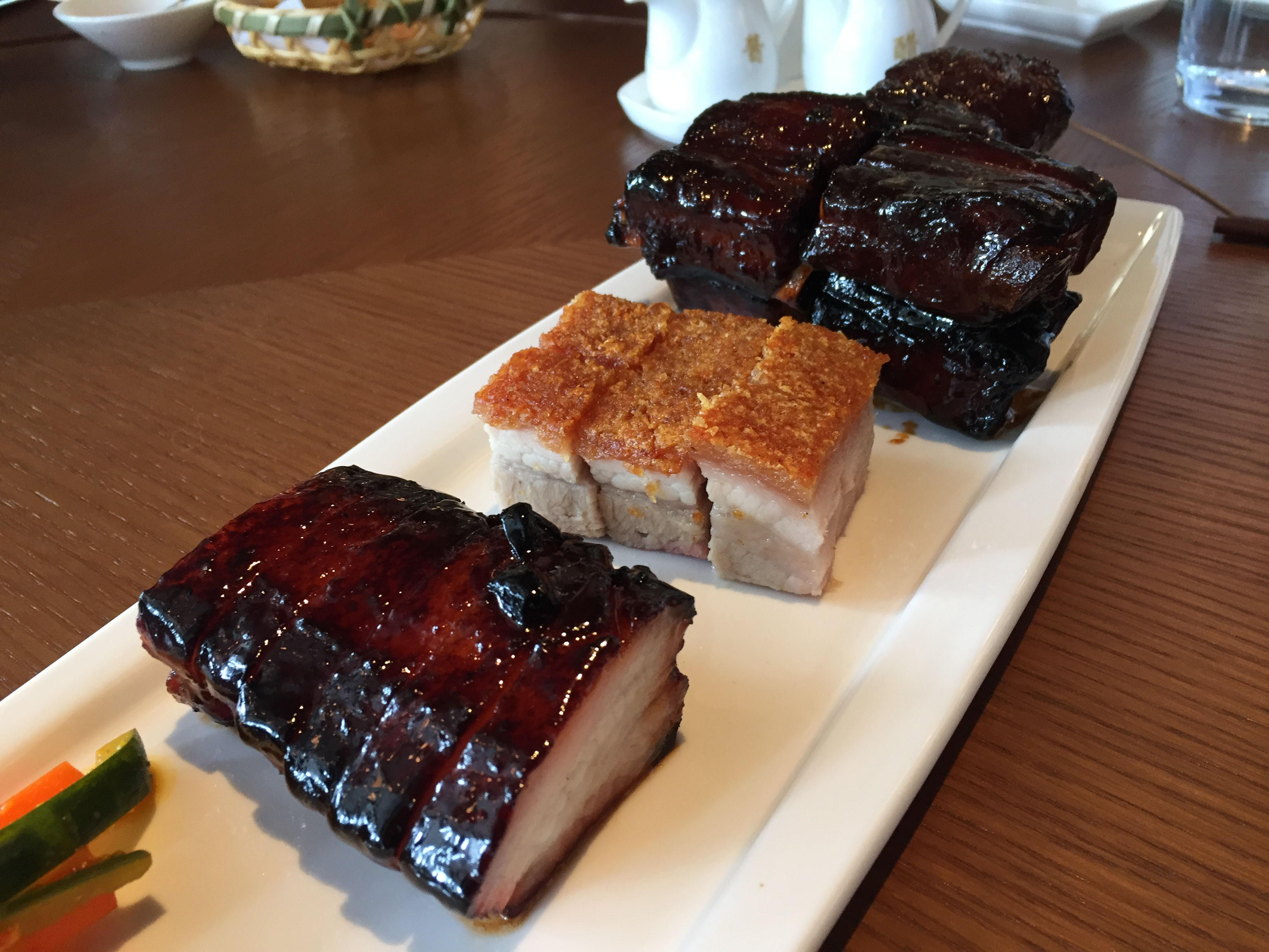 Three types of roast pork, char siu, siu yuk and pork ribs, served at the Empress restaurant at the Asian Civilisations Museum, Singapore.